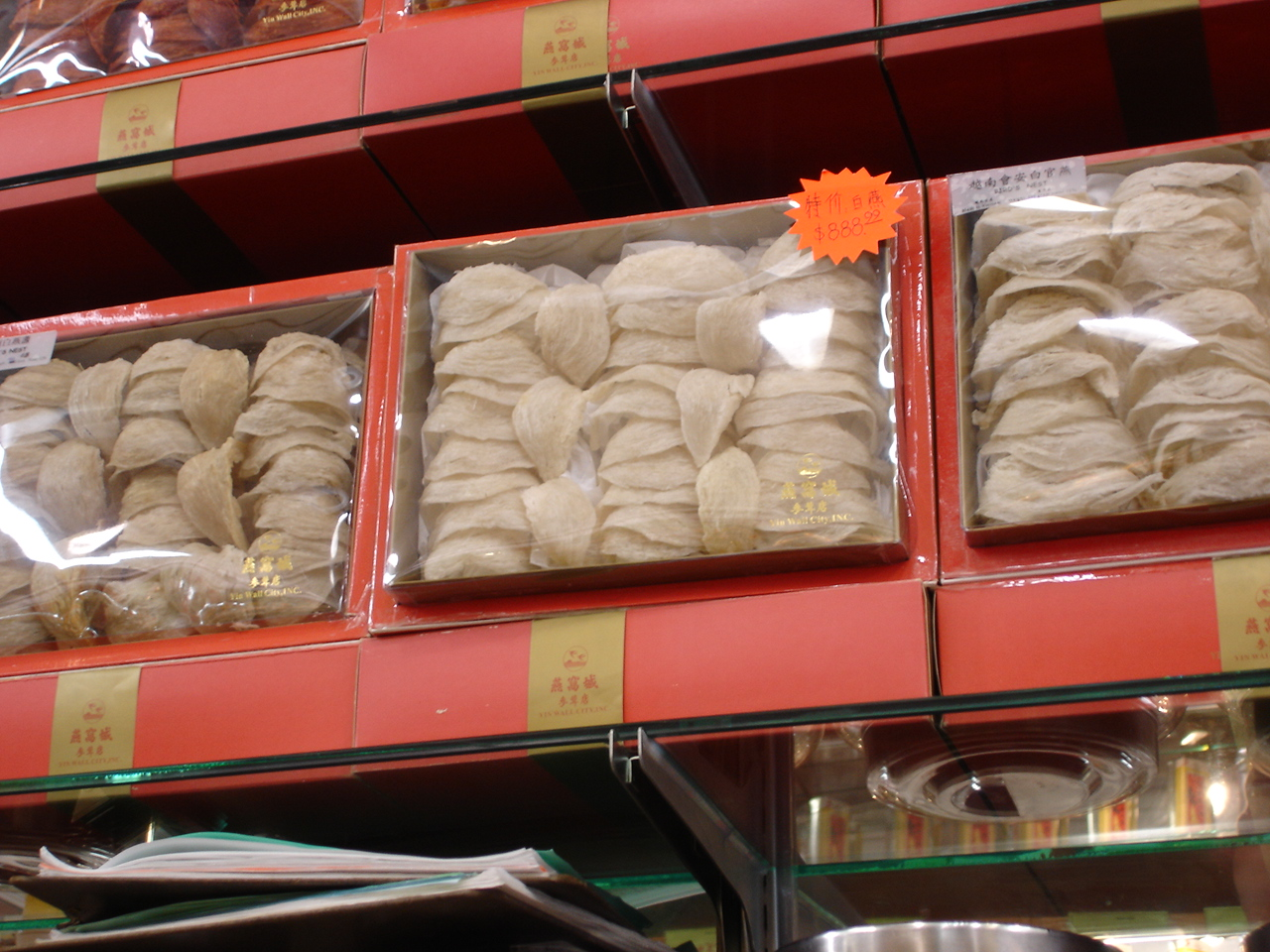 Bird Nests in a store in Chicago Chinatown. The ones I saw in the Chinese store ranged from $800 to $1,500 per box. You can see the $888.99 price on the orange star shaped paper on the right of the box in the photo.